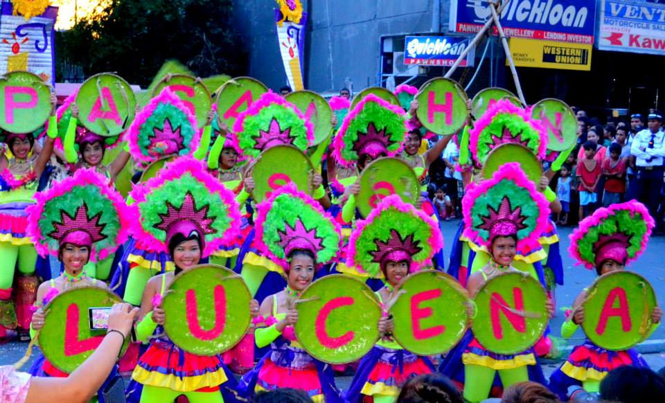 Pasayahan sa Lucena 2013